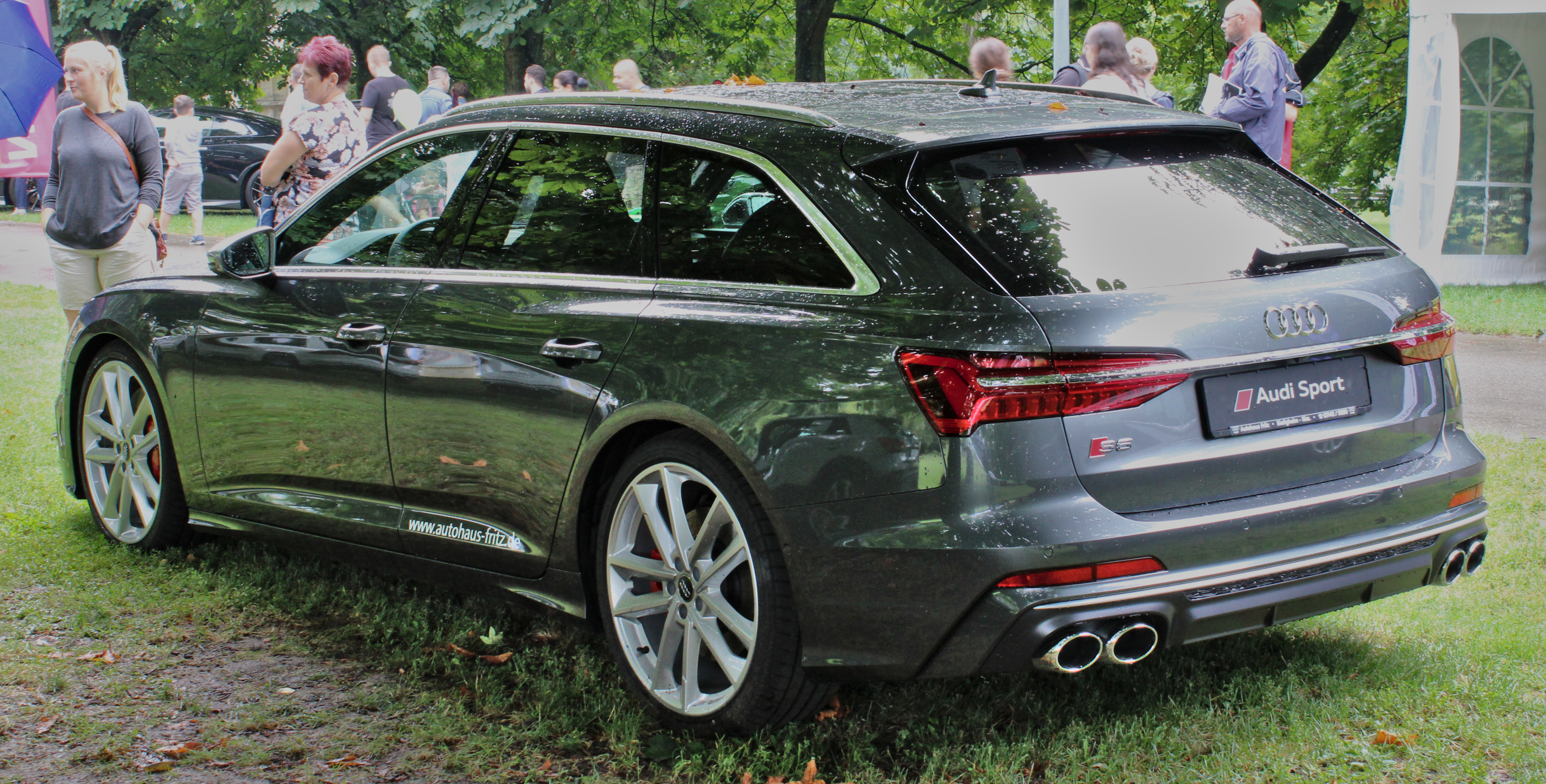 Audi S6 Avant at Schloss Monrepos 2019